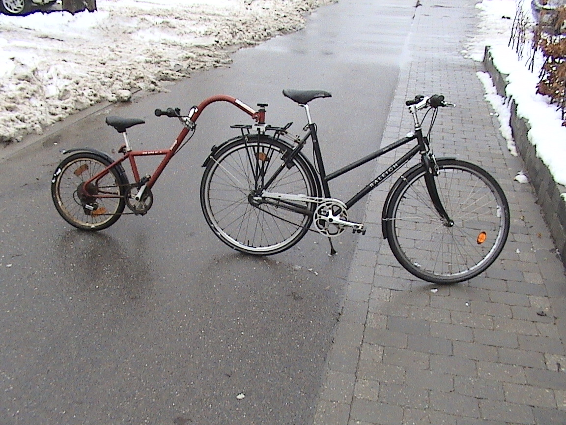 Childrens trailercycle. da: Halvcykel til børn. Photo: Ernst Poulsen